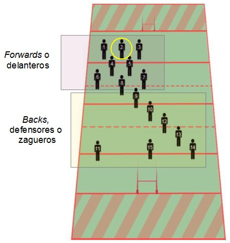 Rugby posiciones. Hooker